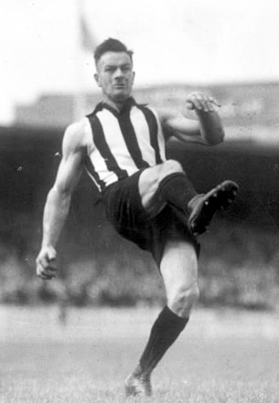 An image of Australian rules footballer Gordon Coventry taking during his playing career in the 1920s and 1930s.